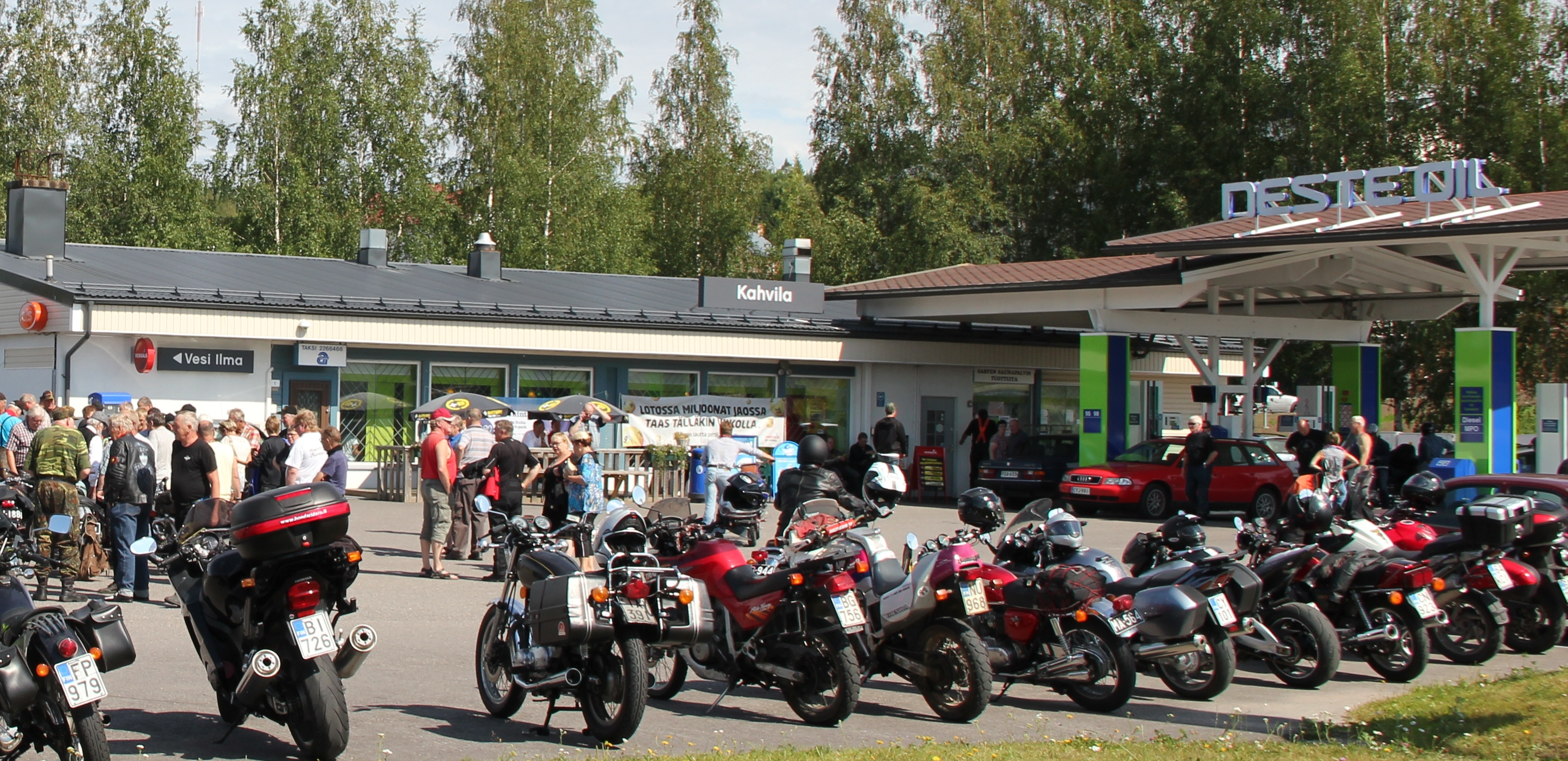 Neste Oil Teija Mesimäki, Gas Station, Pusula Lohja, Finland in the year 2014